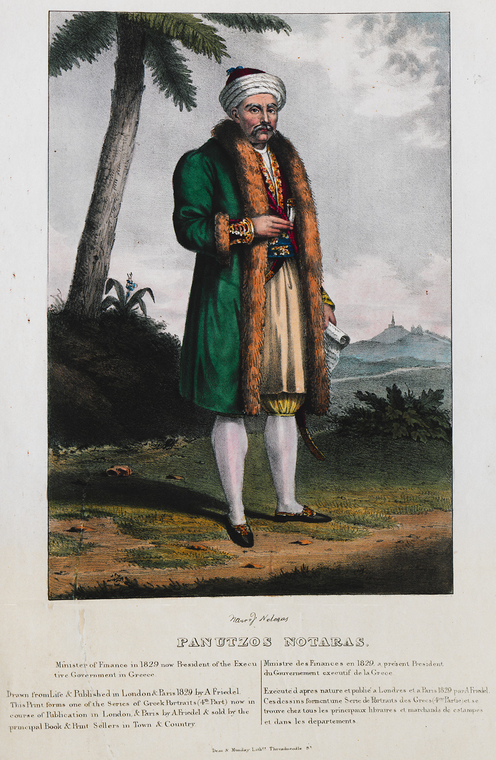 Adam de Friedel. The Greeks, Twenty-four Portraits of the principal Leaders and Personages who have made themselves most conspicuous in the Greek Revolution, from the Commencement of the Struggle, London, Adam de Friedel, 1830.